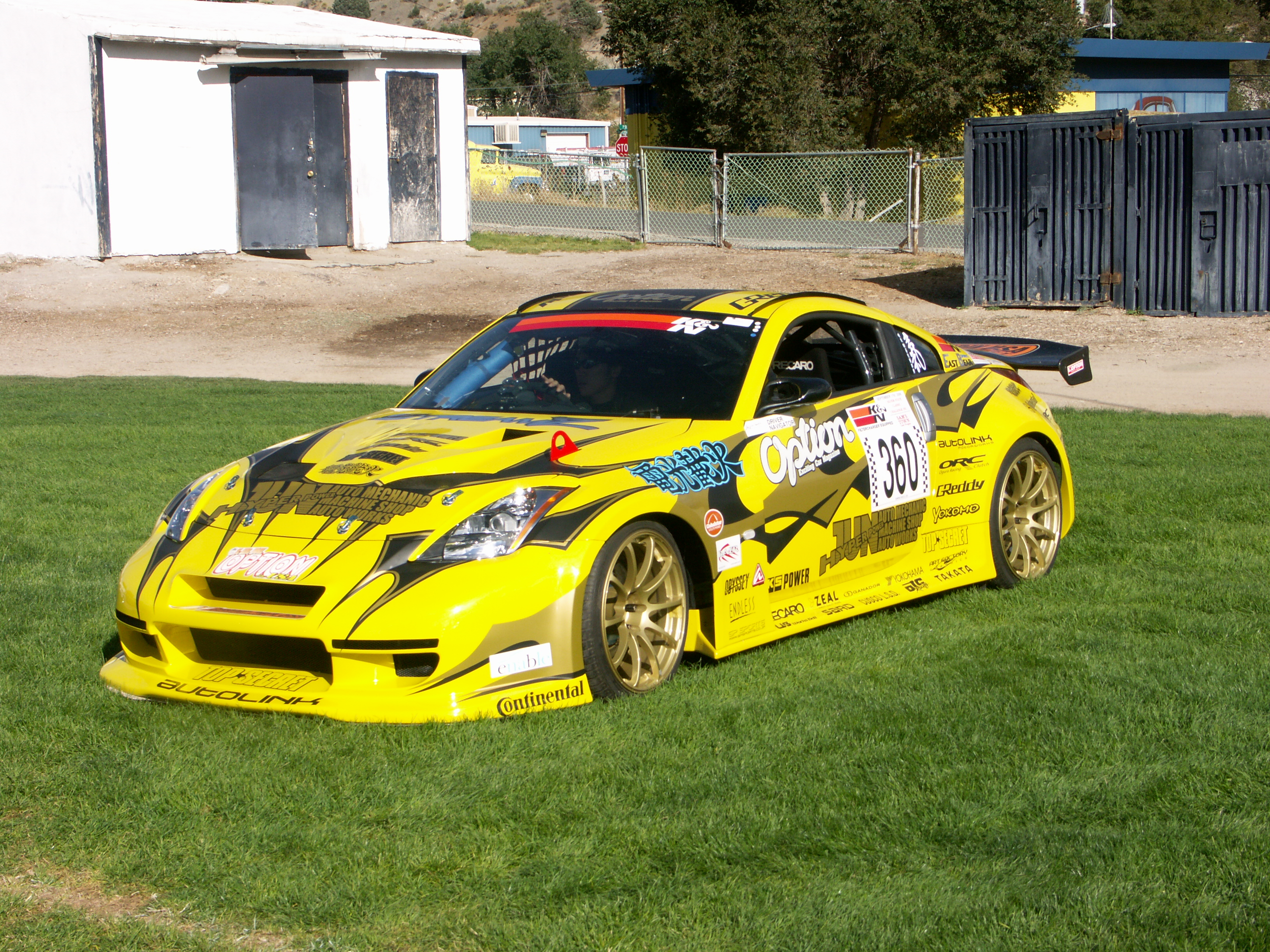 My photo of Daijiro Inada's Nissan 350Z, taken at the September 2006 Silver State Classic Challenge.